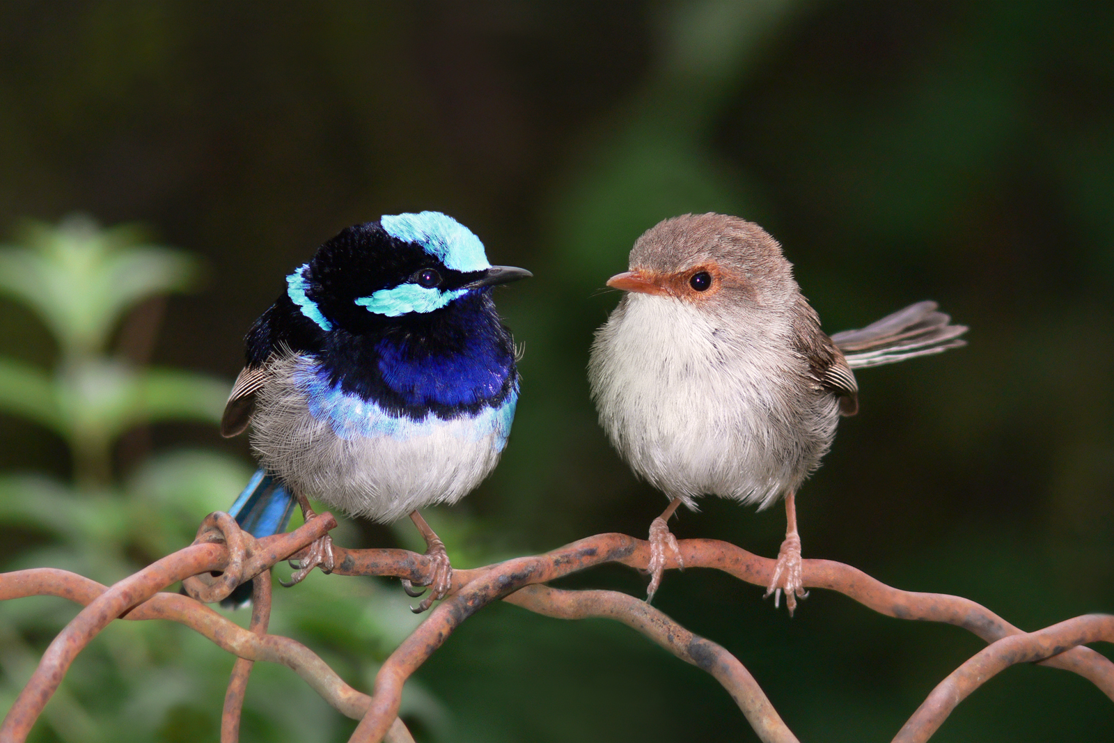 Male and Female Superb Fairy-Wren.Taken in Ensay, Victoria. This is a composite image, the right bird was inserted into the image.